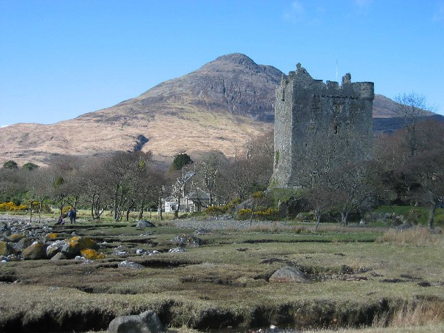 Moy Castle on Mull. Looking approximately North west towards Ben Buie (2354ft)